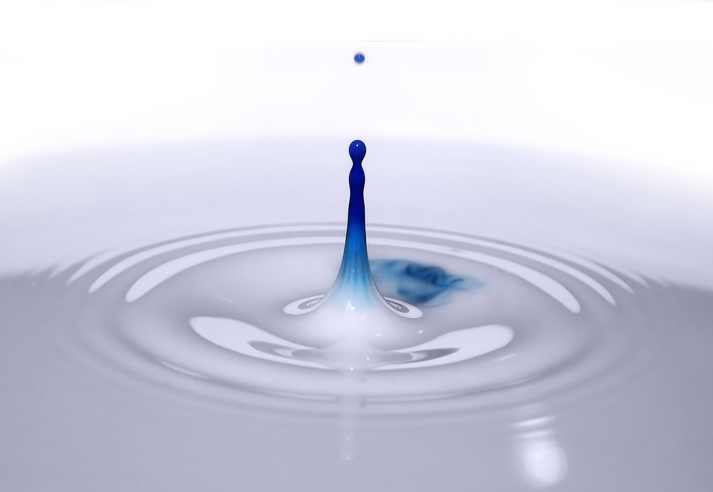 The simple event of a droplet impacting liquid is an everyday occurence in our immediate surroundings but the action all occurs so quickly that it's hard to appreciate the subtle beauty hidden in a brief instant like this. The image seen here depicts the split-second after the impact of some blue food dye into a saucer of milk. It was taken with the assistance of a Nikon SB-800 Speedlight flash, synchronised to a shutter capture time of 1/500th second. The original photograph is available in full resolution at this address.